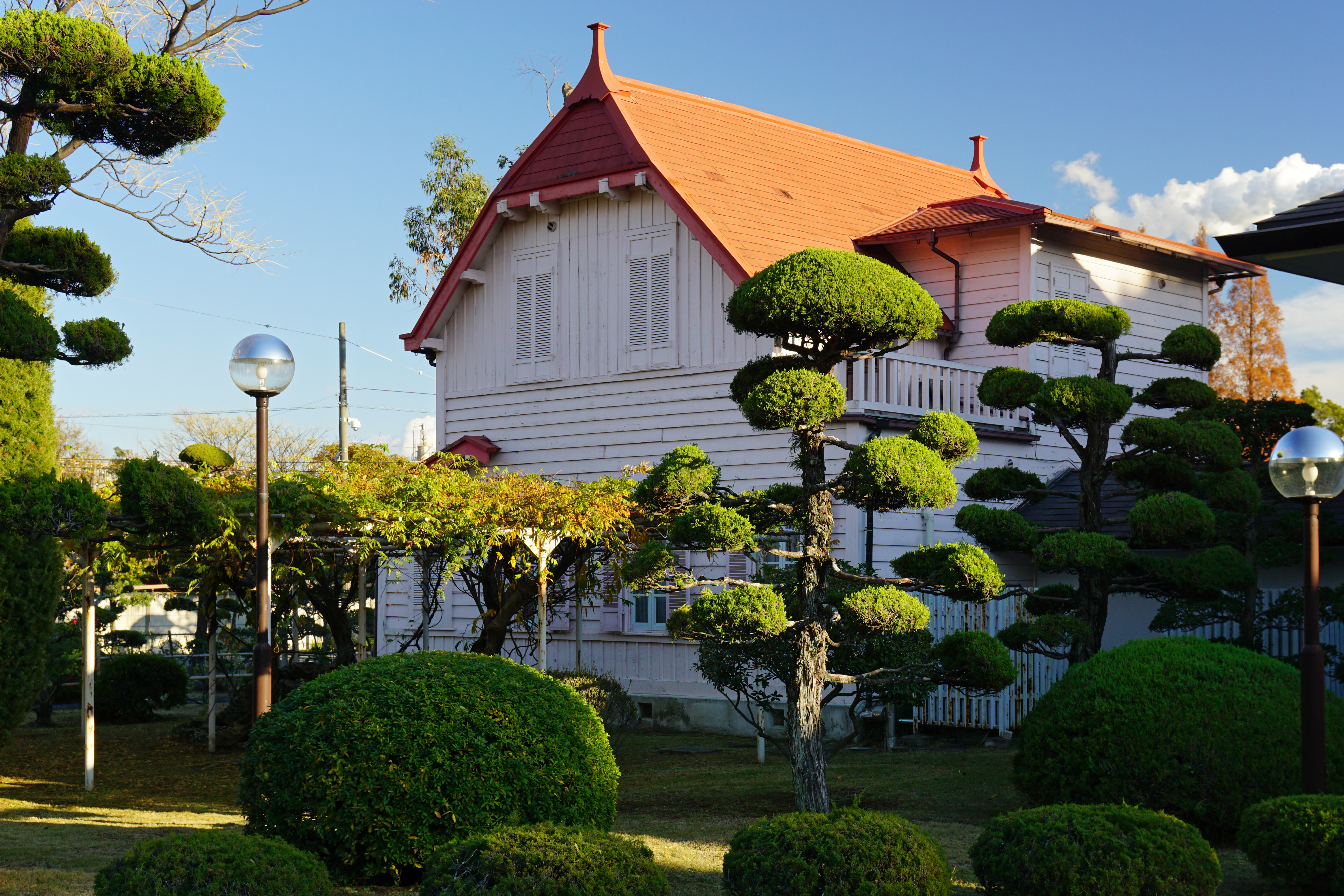 Daicel-Ijinkan Clubhouse in Himeji, Hyogo Prefecture, Japan. It was built in 1910.